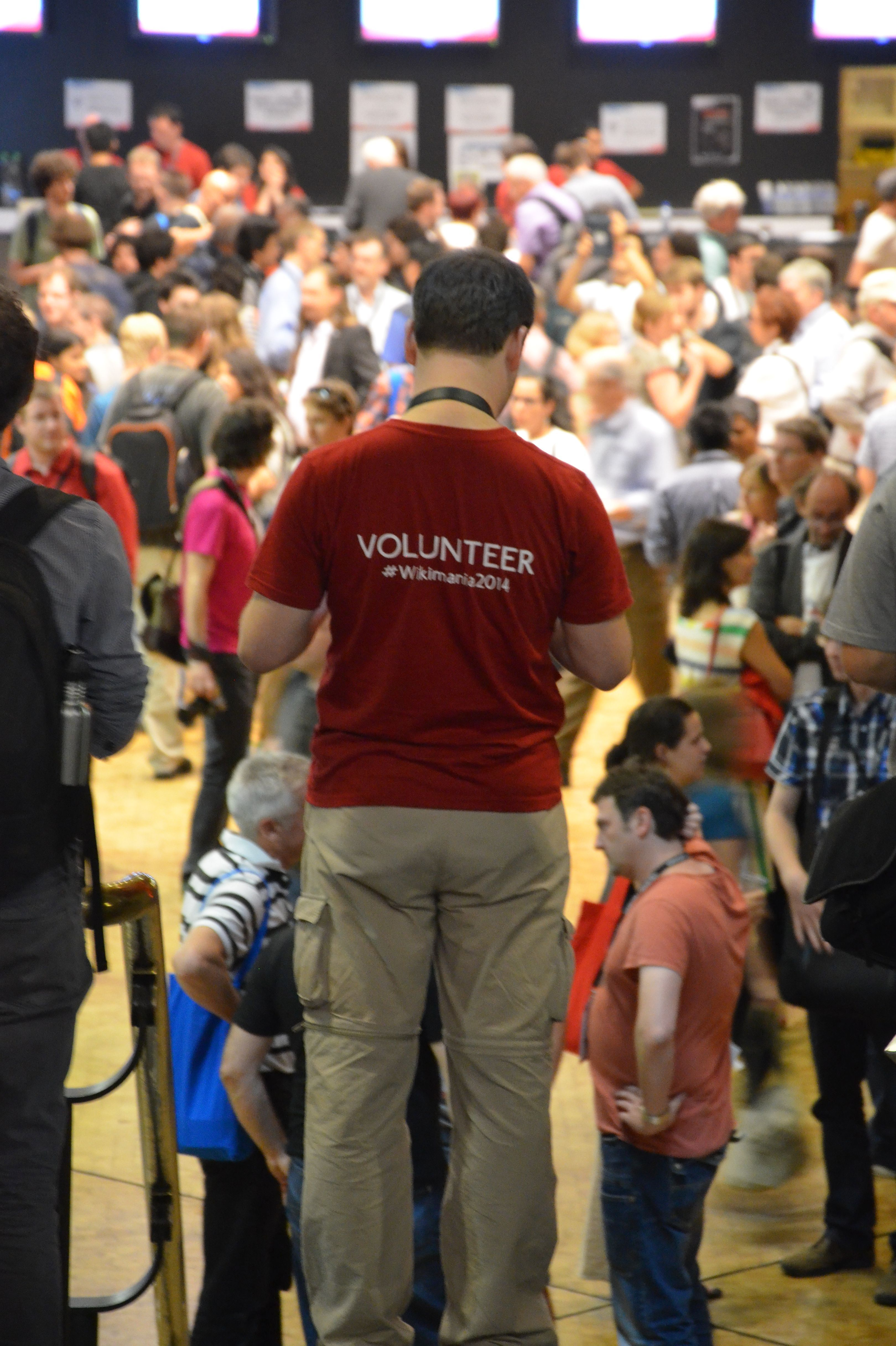 Wikimania 2014 in London